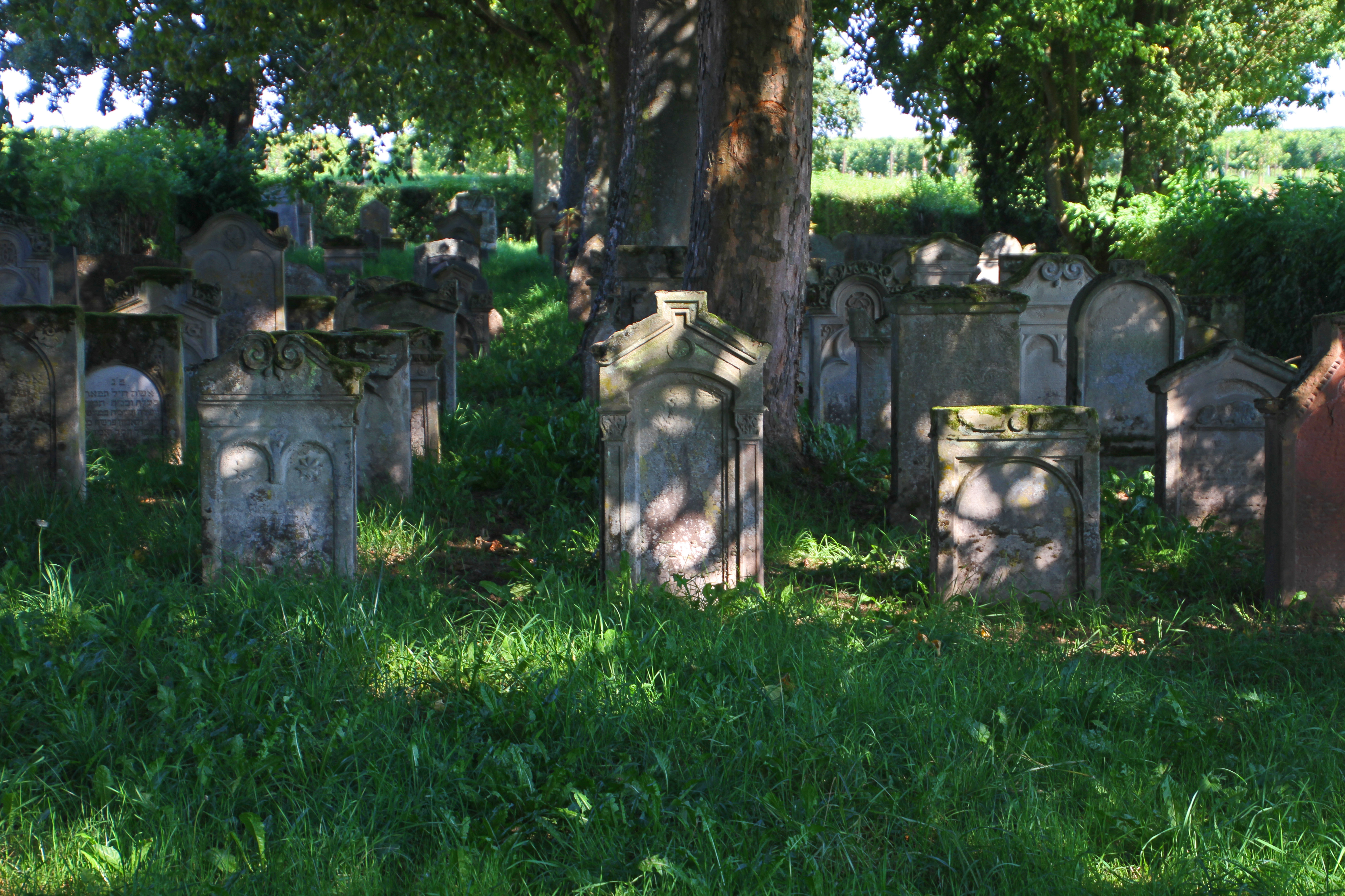 Cultural heritage monument in Lustadt